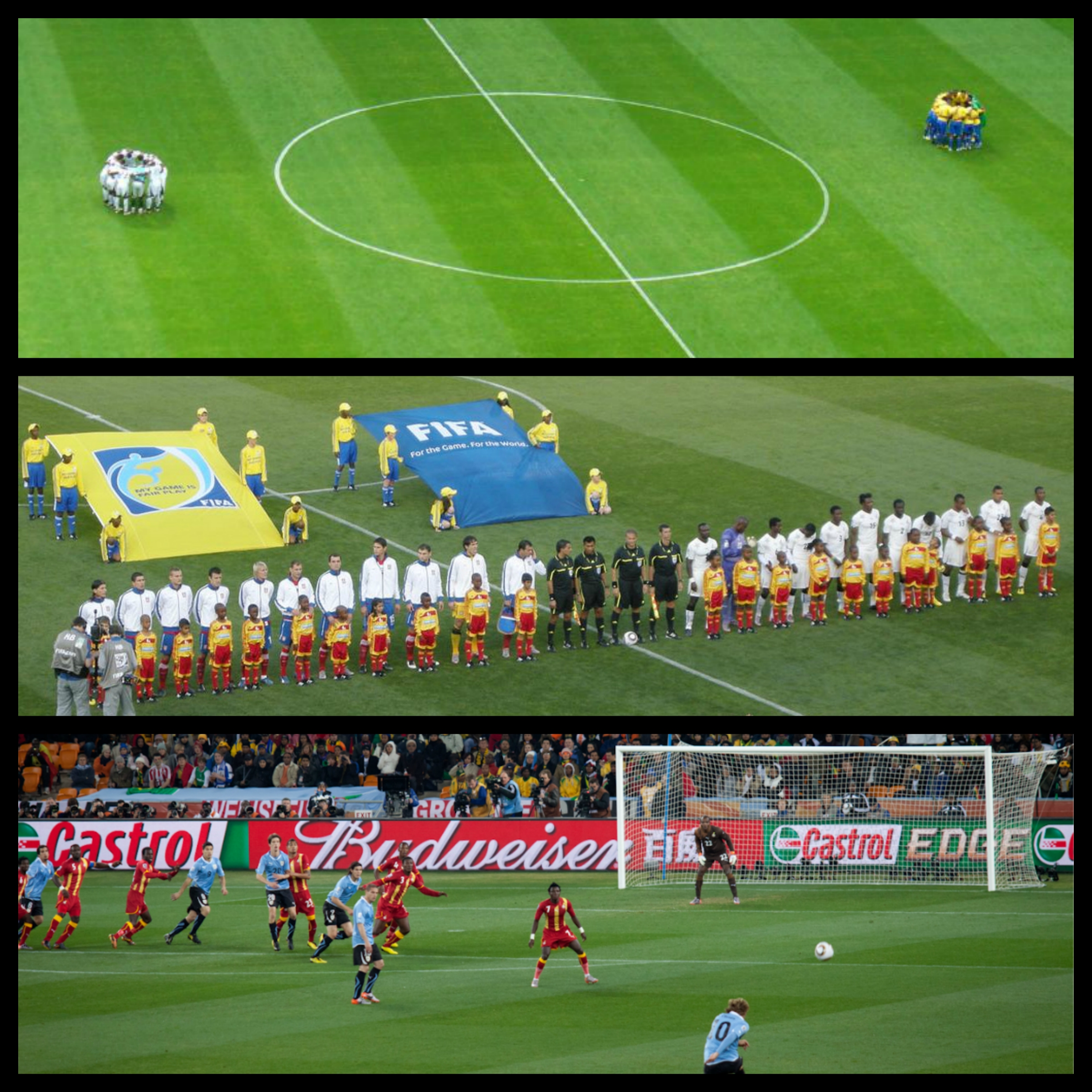 Black Stars (Ghana national football team) World Cup history.